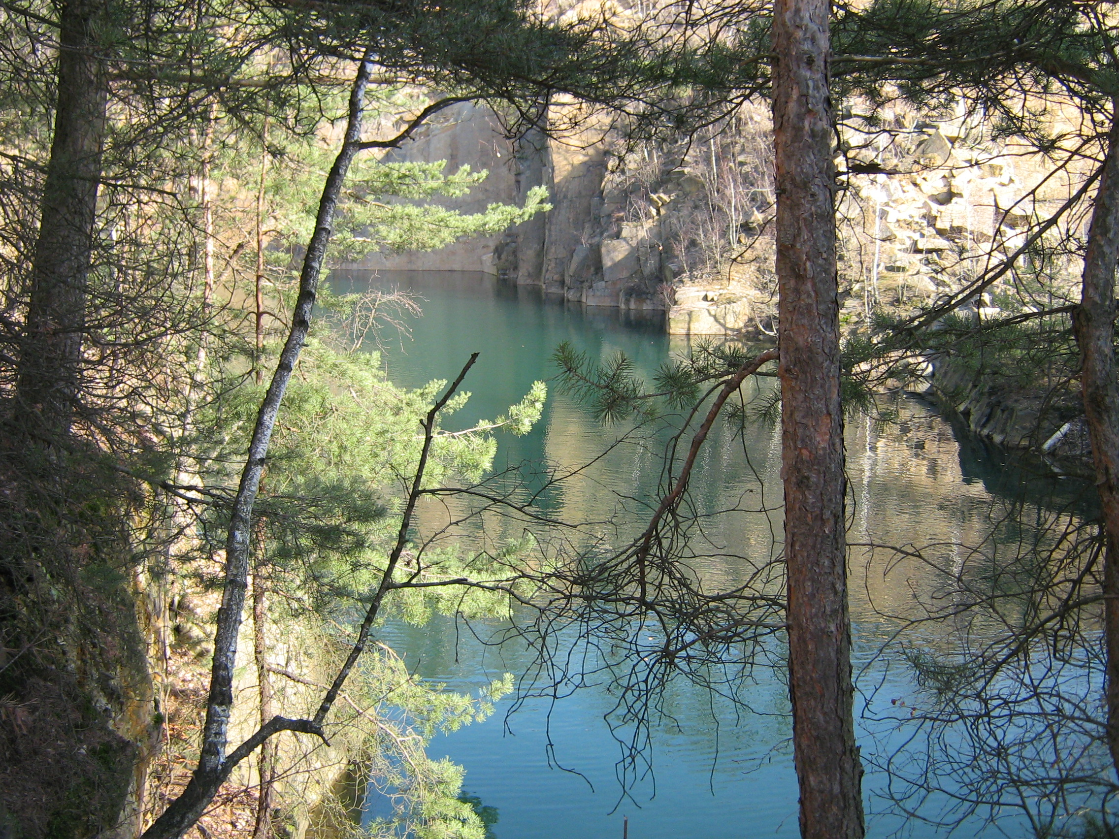 mountains Konigshainer Berge - Quarry